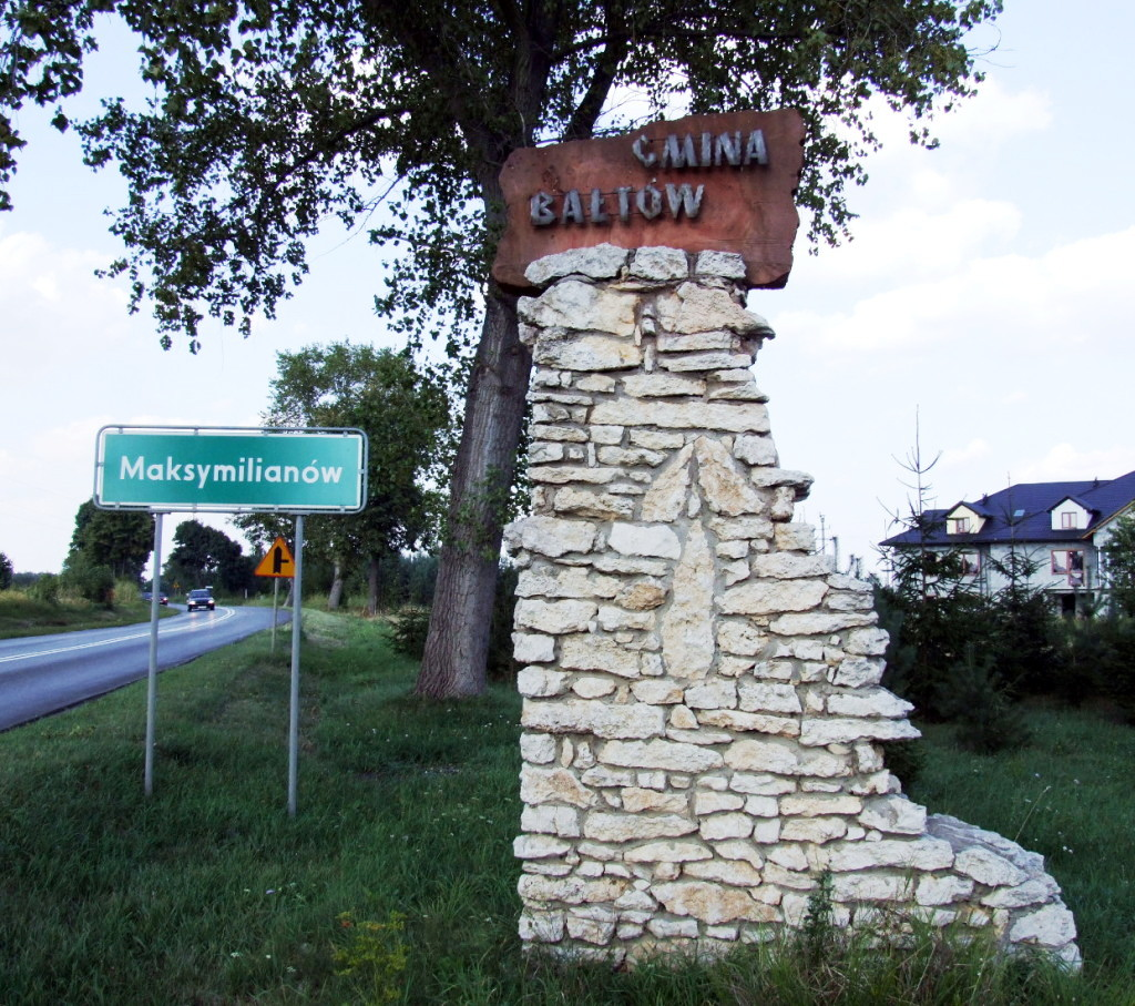 Gmina Baltow (Ostrowiec county) welcome sign near village Maksymilianow